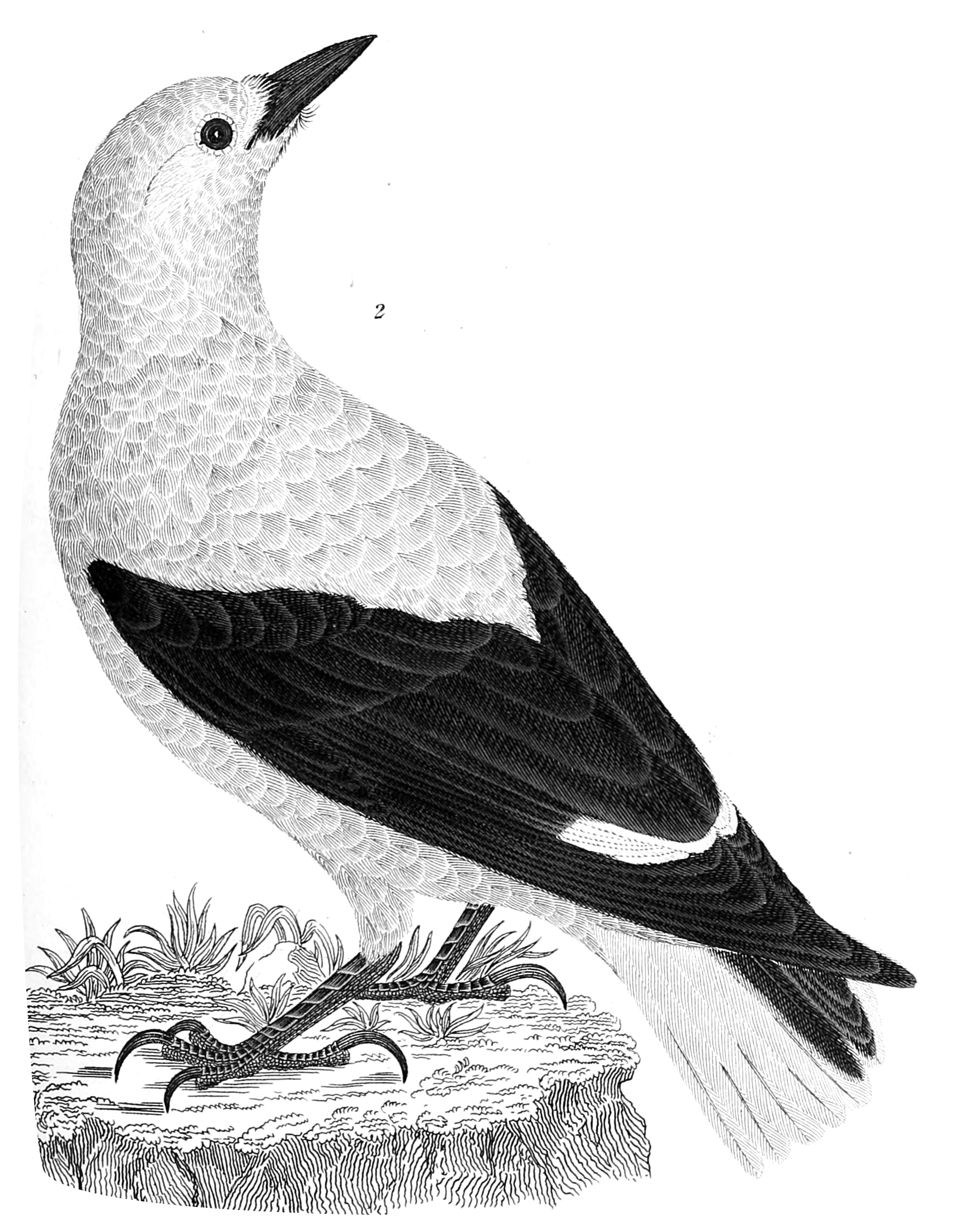 drawing of Clark's nutcracker by Alexander Wilson